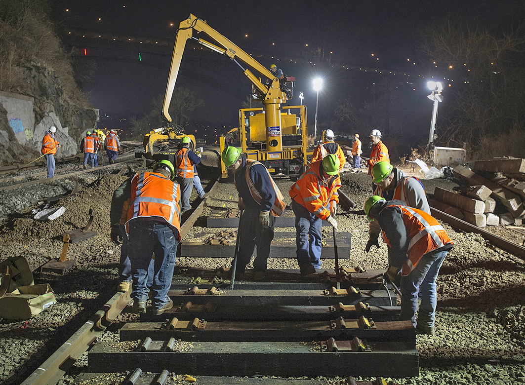 Metro-North Railroad crews at work on Tue., December 3, 2013 repairing a damaged section of track after a derailment near the Spuyten-Duyvil station on Sunday, in preparation for limited restoration of service on the Hudson Line Wednesday morning.